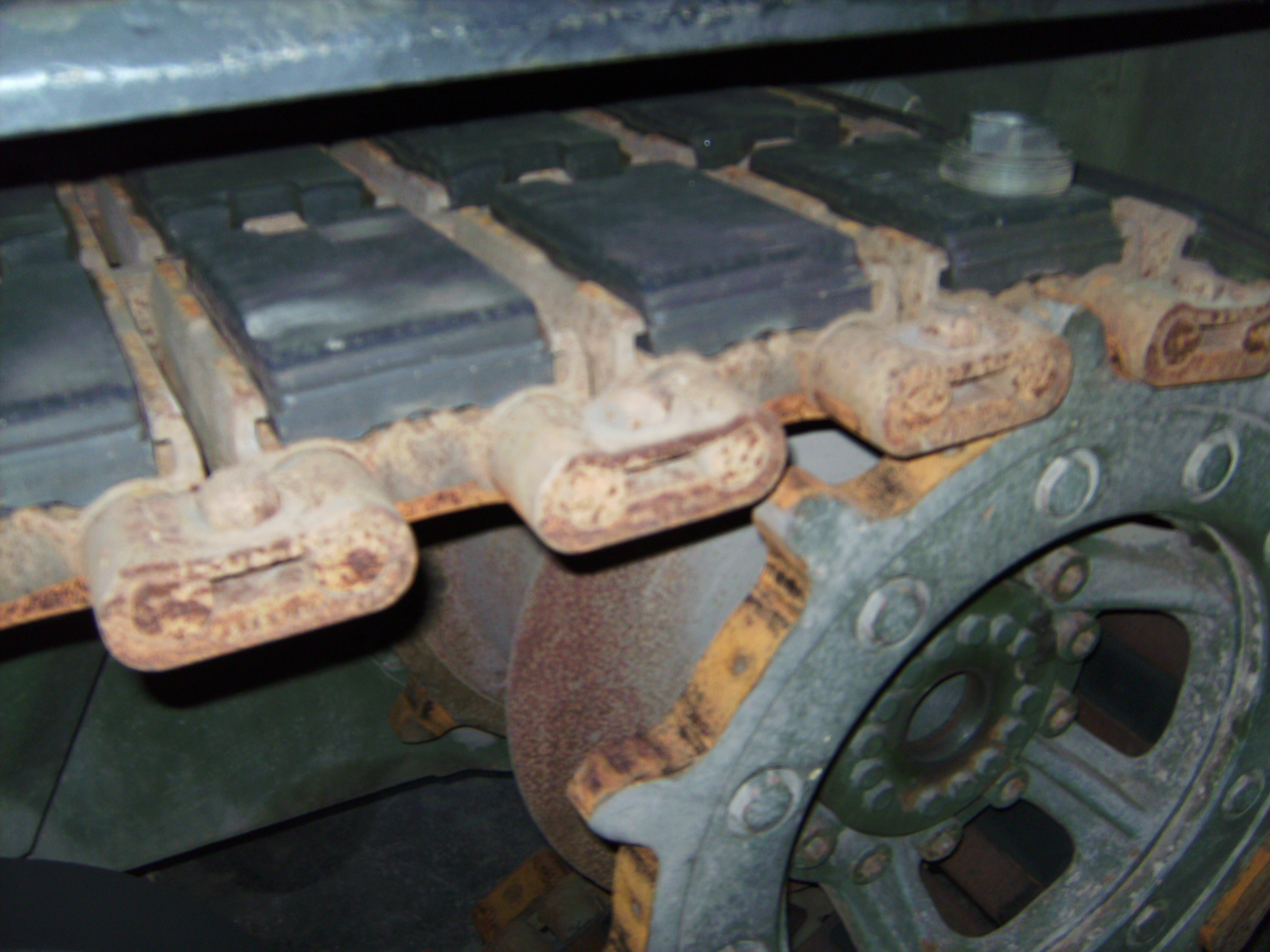 Track